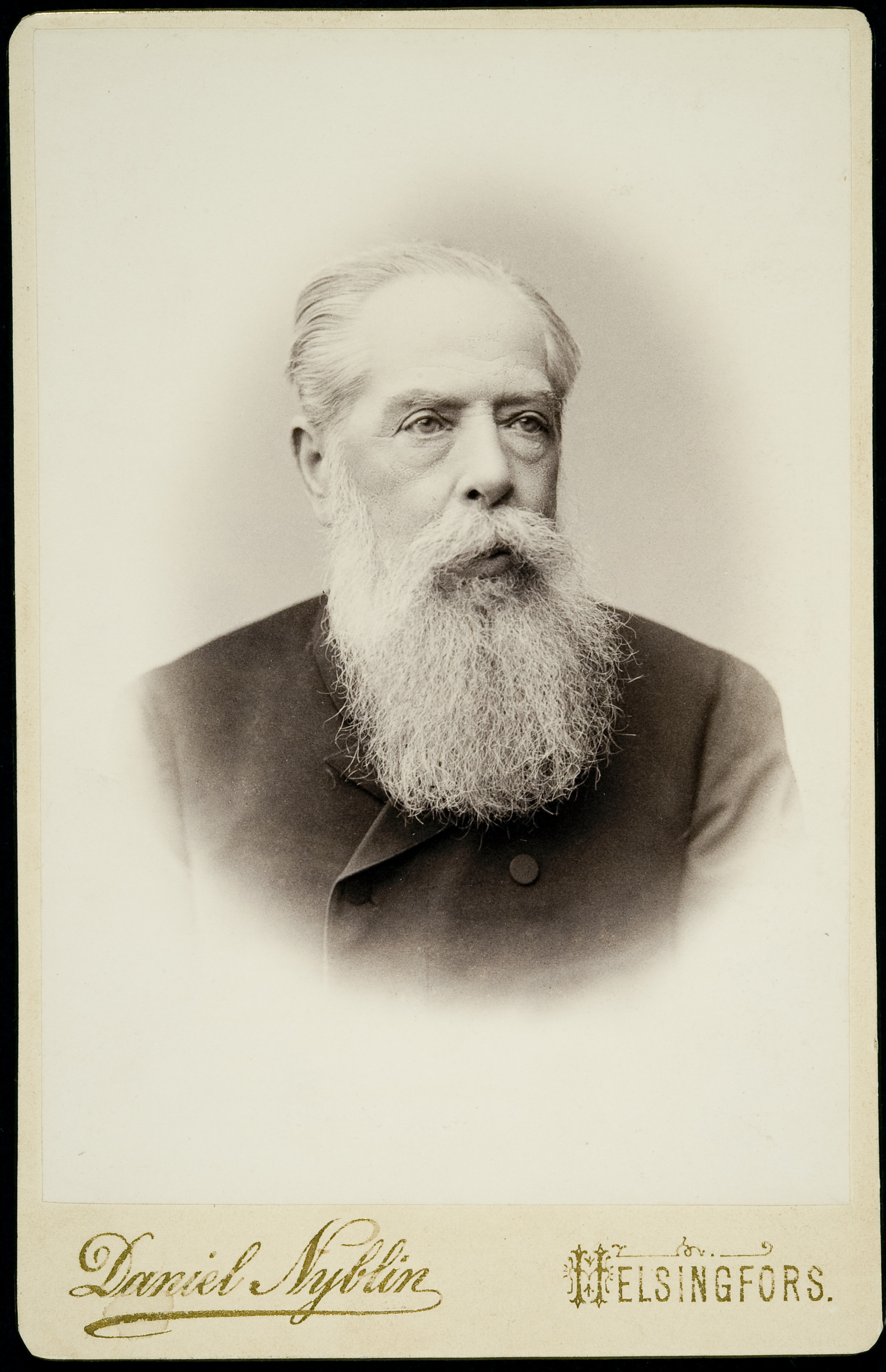 Photograph of the Finnish educationist Zacharias Cleve (1820–1900).